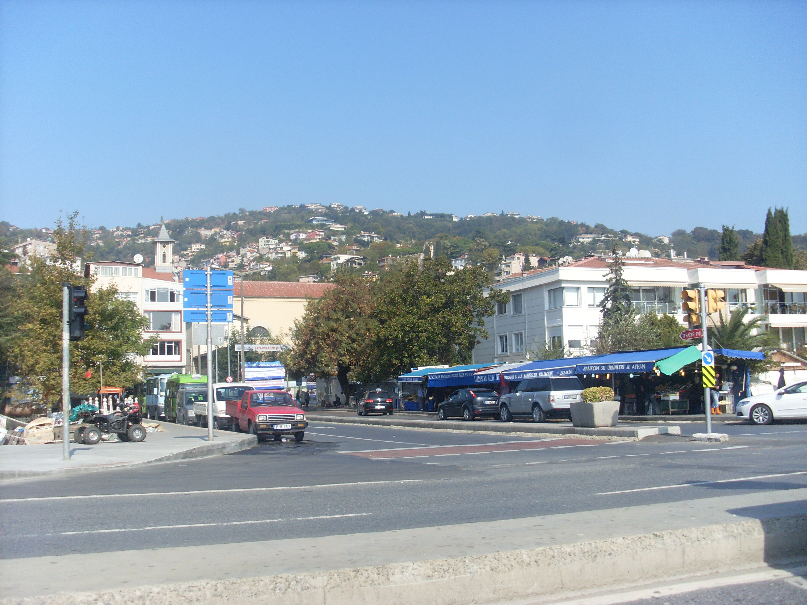 İstanbul - Büyükdere, Sarıyer r1 - Nov 2013